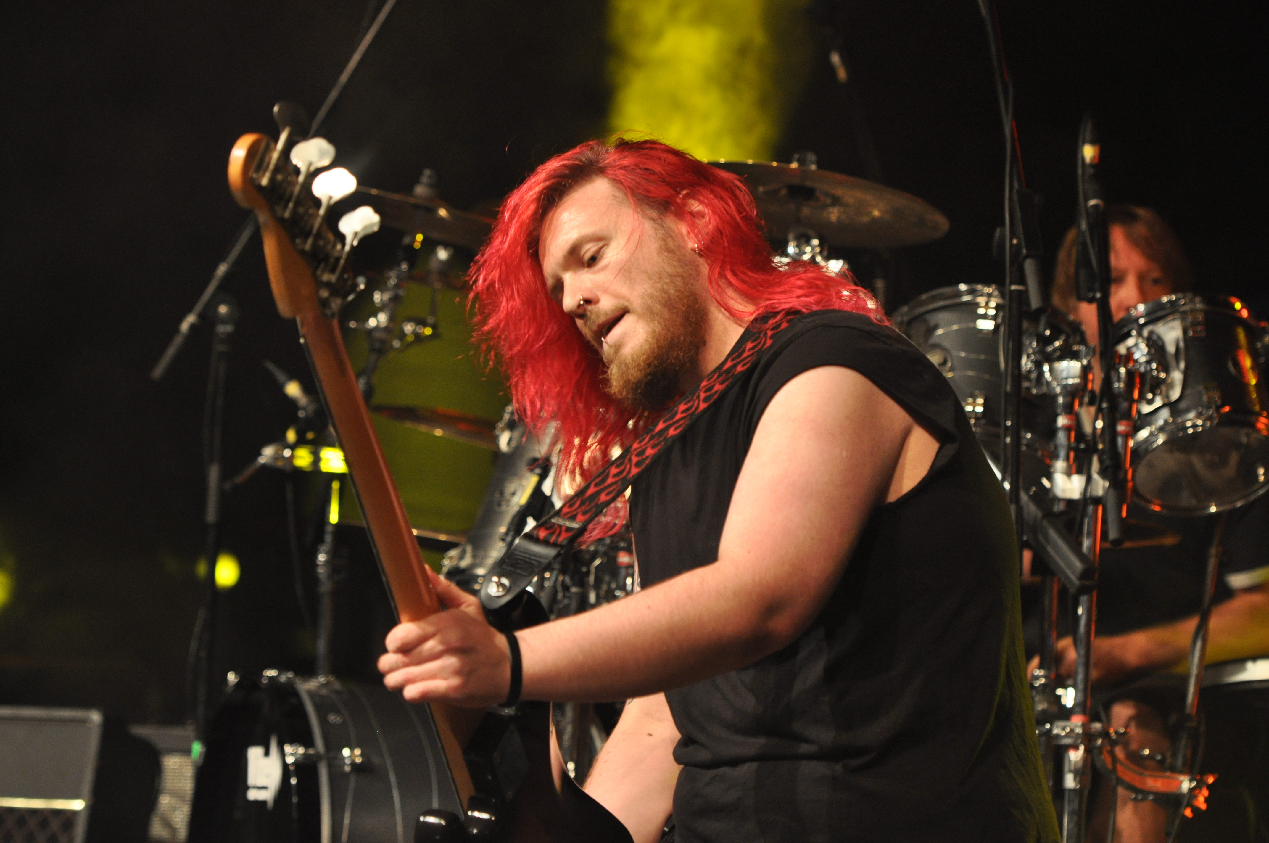 New Model Army, appearence at the 1st blacksheep festival in the castle yard / castle park of Bad Rappenau - Bonfeld (Germany)